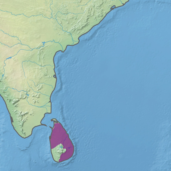 Ecoregion IM0212 - Sri Lanka dry-zone dry evergreen forests (in purple)